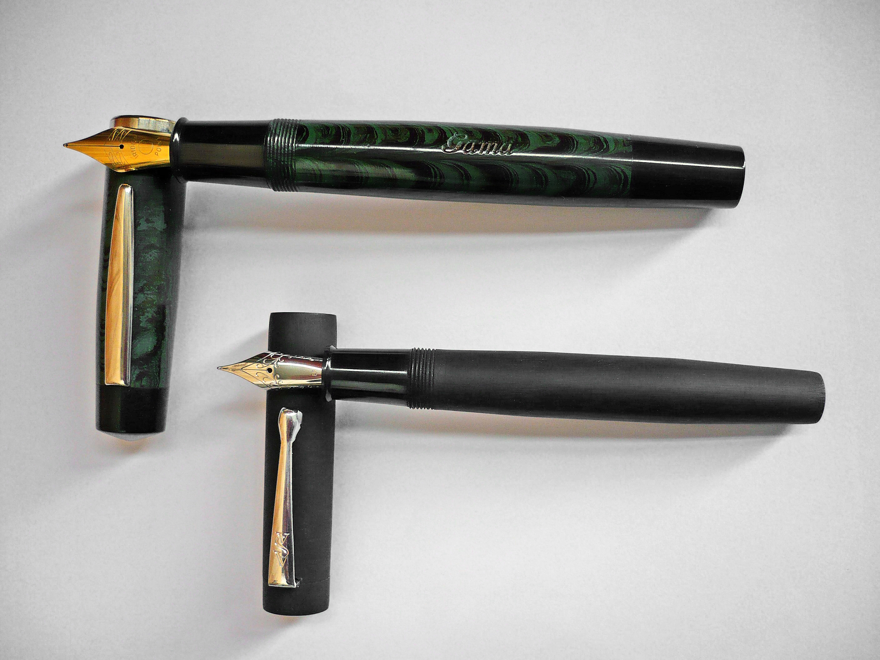 Gama Supreme and ASA Maya fountain pens. The ASA Maya is the smaller pen. Dimensions for the Gama Supreme Length capped: 165 mm Length uncapped: 151.5 mm Length posted: 196.5 mm Cap length: 75.5 mm Cap diameter: 19 mm Cap breather hole(s): 1 hole for pressure equalization during uncapping Barrel length: 104 mm Barrel diameter: 17.3 mm Section length: 22 mm Section diameter: 15.5 mm tapers to 13.4 mm Feed diameter: 6.35 mm (¼ inch) Nib exposed length with the Ambitious Indian № 12 Iridium Point: 26.5 mm Ink capacity: 3.5 ml (usable volume for storing ink in the barrel) Barrel weight: 29 g (filled with ink) Cap weight: 13 g Total weight: 42 g (filled with ink) Turns to uncap: 5½ turns Dimensions for the ASA Maya 3 in 1 Length capped: 149 mm Length uncapped: 132 mm Length posted: 175 mm Cap length: 69 mm Cap diameter: 15.9 mm Cap breather hole(s): 1 hole for pressure equalization during uncapping Barrel length: 90 mm Barrel diameter: 14.2 mm Section length: 18.7 mm Section diameter: 12.6 mm tapers to 11.3 mm Feed diameter: 6 mm Nib exposed length with an installed JoWo #6 nib unit: 23.3 mm Ink capacity: 3.4 ml (usable volume for storing ink in the barrel in eye dropper mode) Barrel weight: 16 g (with a Schmidt K5 converter filled with ink installed) Cap weight: 9 g Total weight: 25 g (with a Schmidt K5 converter filled with ink installed) Turns to uncap: 2 turns